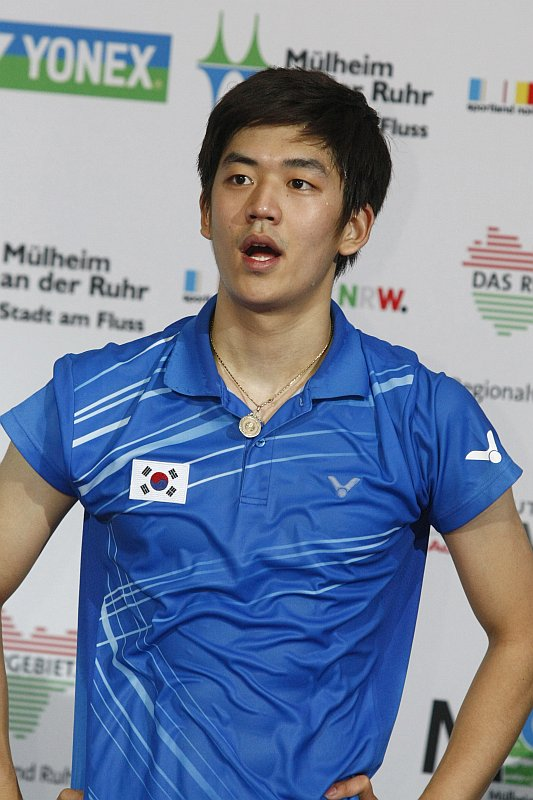 Lee Yong Dae